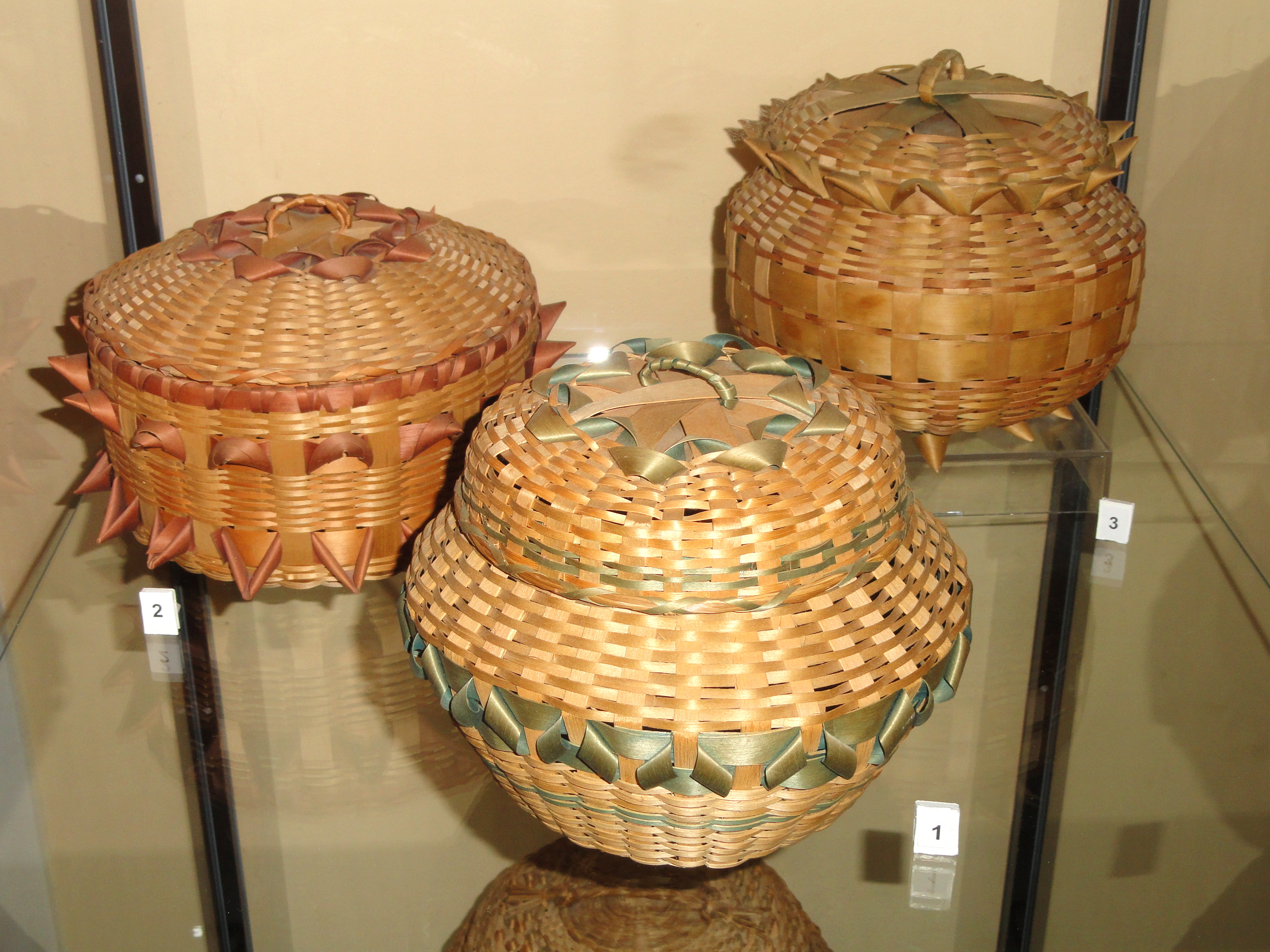 Exhibit in the Native American crafts collection of the Danforth Museum, 123 Union Avenue, Framingham, Massachusetts, USA. Photography was permitted without restriction.